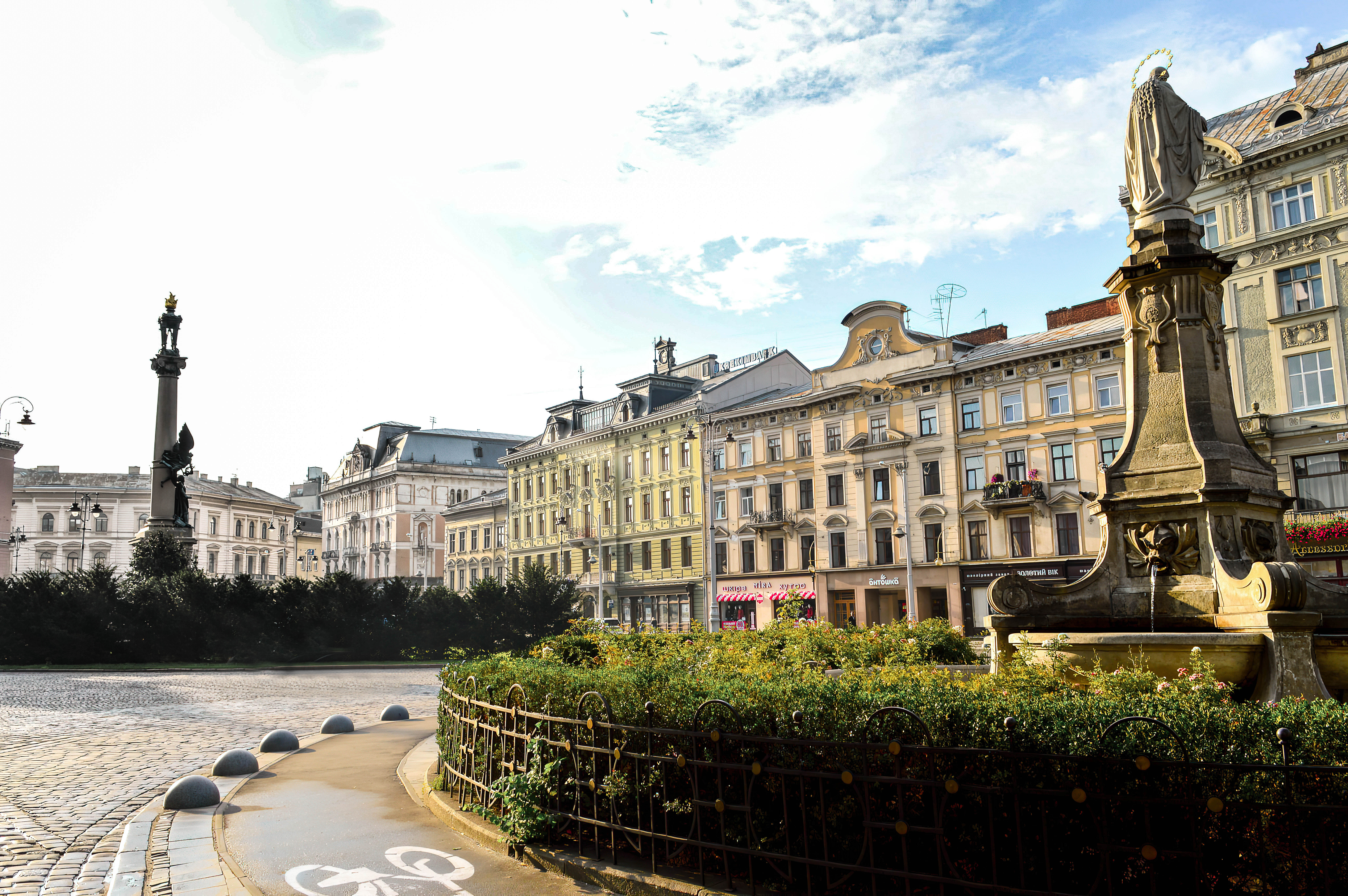 500px provided description: Monument To Adam Mickiewicz [#city ,#architecture ,#old town ,#palace ,#steeple ,#bell tower ,#clock tower ,#building exterior ,#famous place ,#international landmark ,#city break ,#town square ,#Ukraine ,#Lviv ,#Lvov]